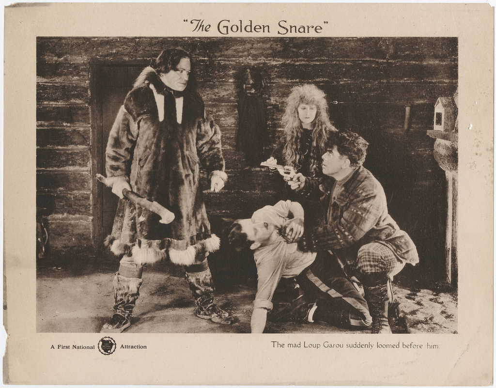 Lobby card for the American silent film The Golden Snare (1921) with the caption, "The mad Loup Garou suddenly loomed before him." Approximately 35.5 x 27.5 cm. Part of the Western silent films lobby card collection, 1912-1930. Cite as being from the Yale Collection of Western Americana, Beinecke Rare Book & Manuscript Library, Yale University. Bibliographic Record Number 2019869. View our Record: Permalink.